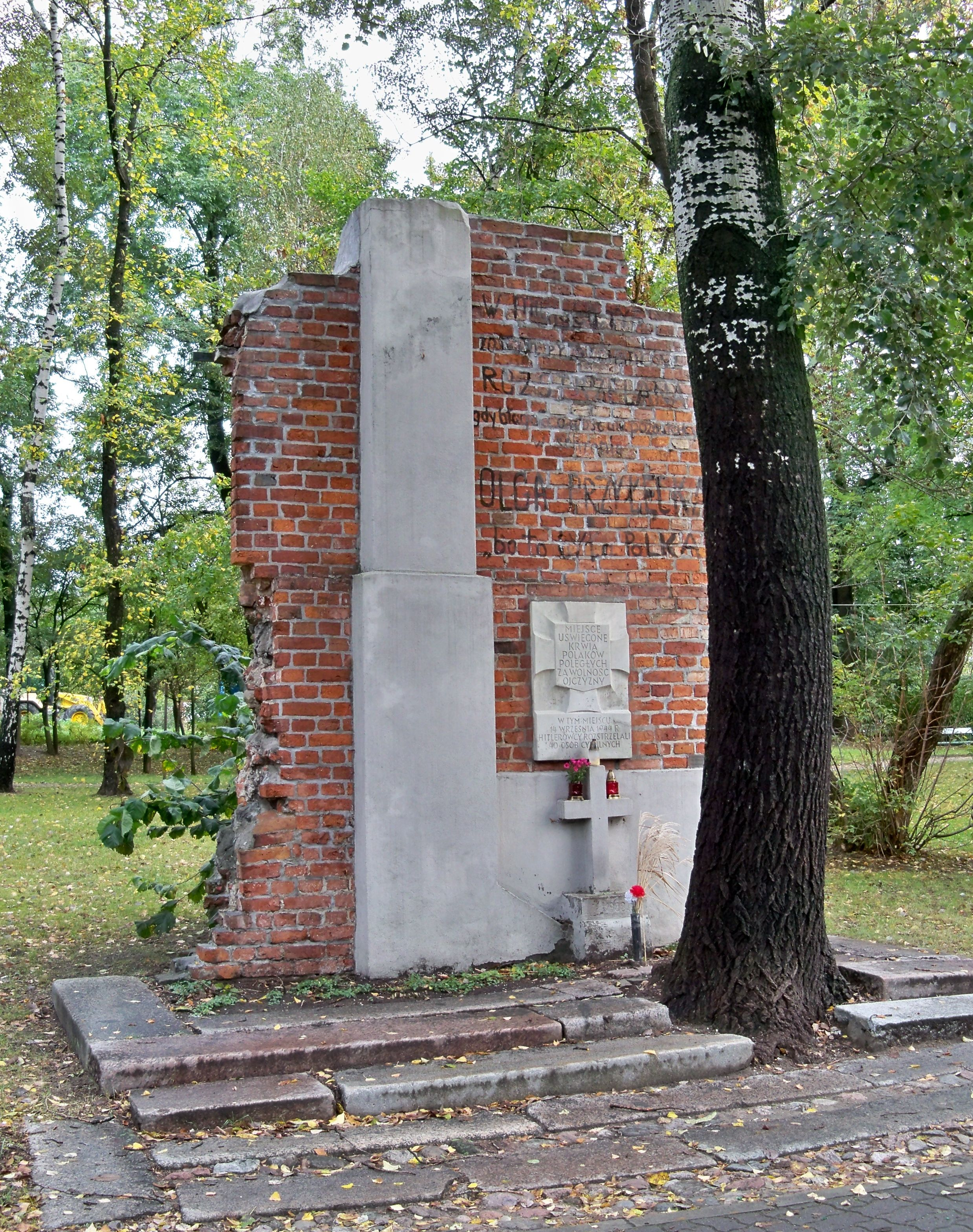 Plaque at Kaskada Park in Warsaw (near Zygmunta Trószyńskiego Street) commemorating about 40 Polish civilians murdered in this place by Nazi Germans during the Warsaw Uprising in September 1944.